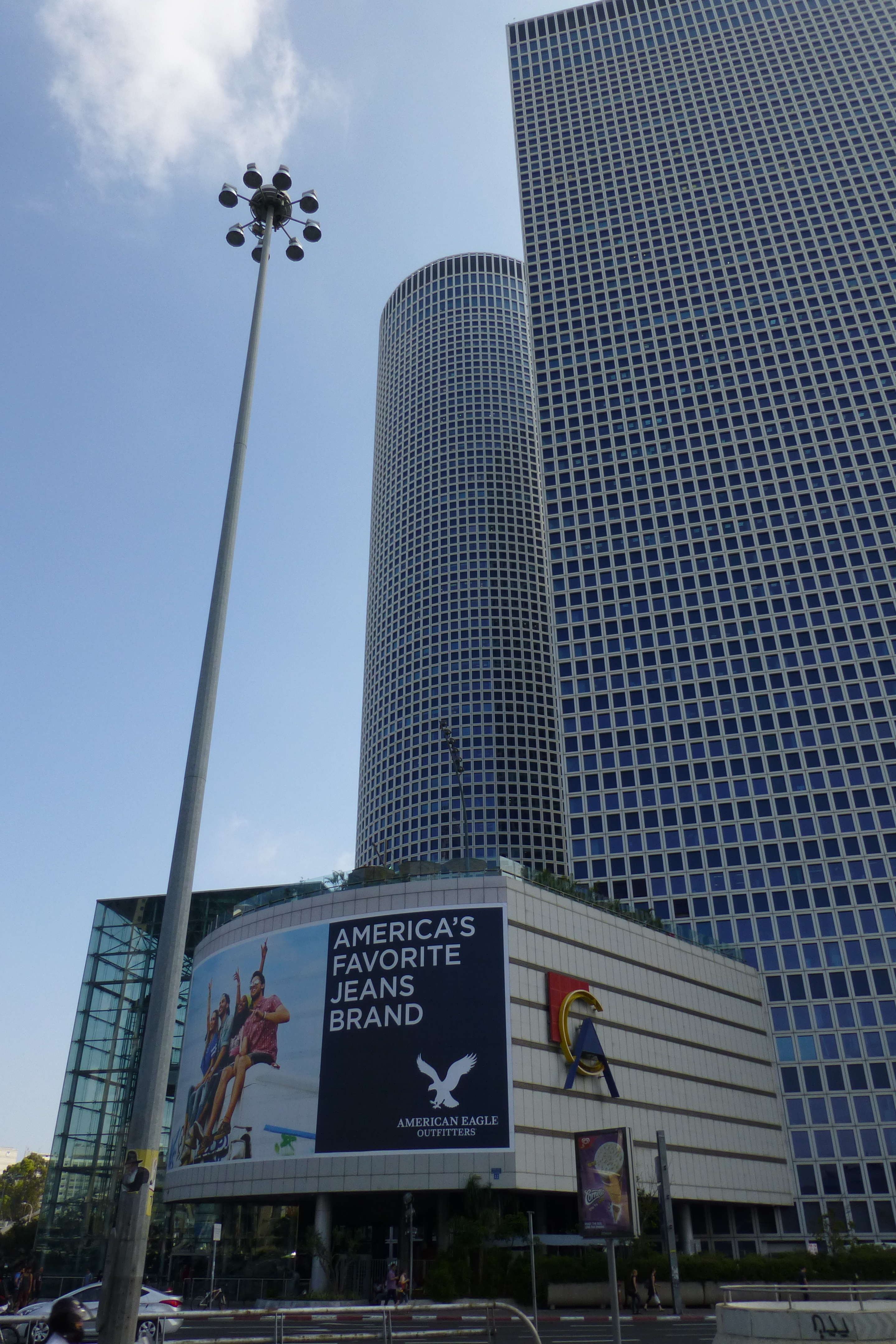 Azriely Towers